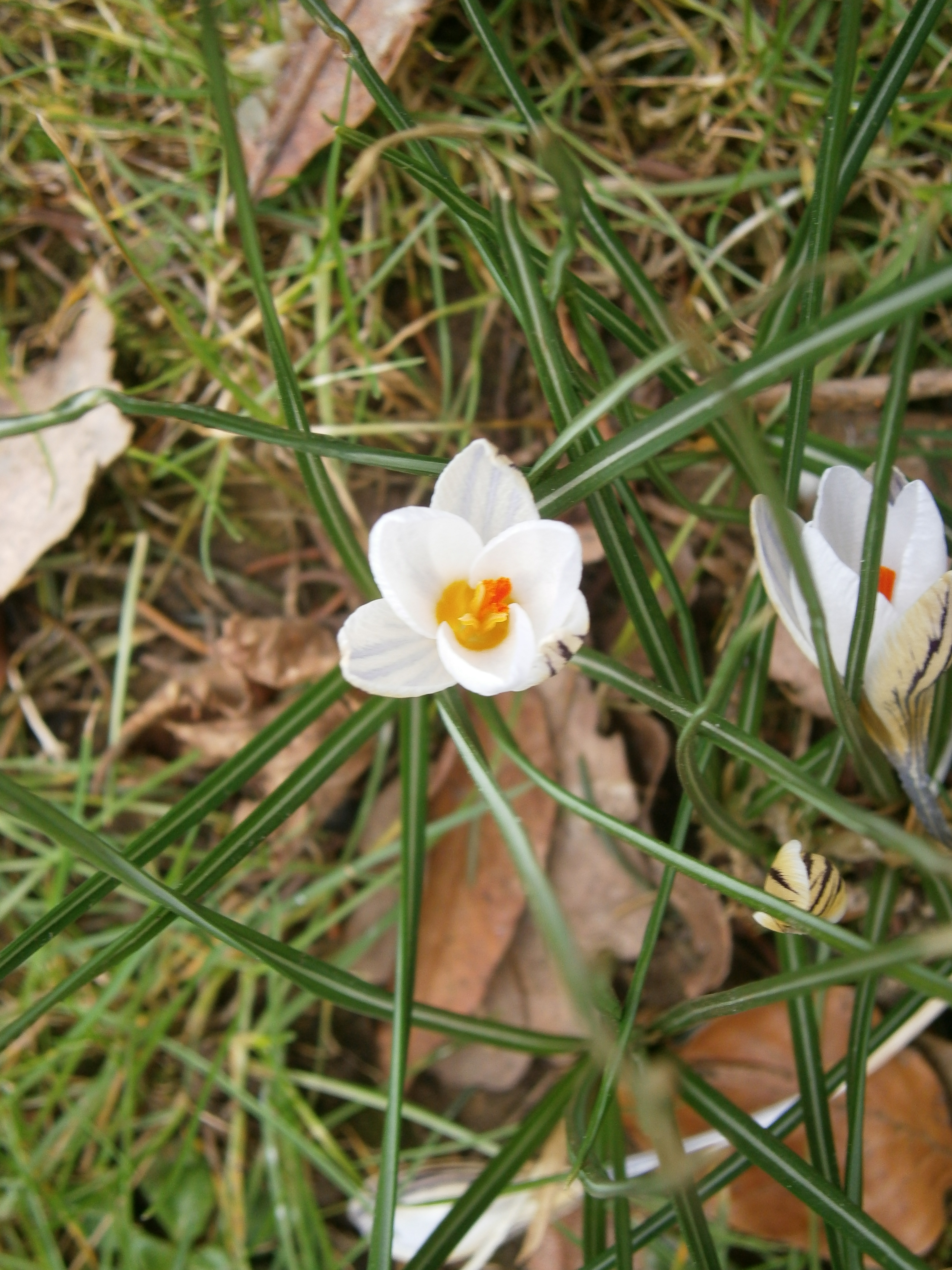 Crocus biflorus